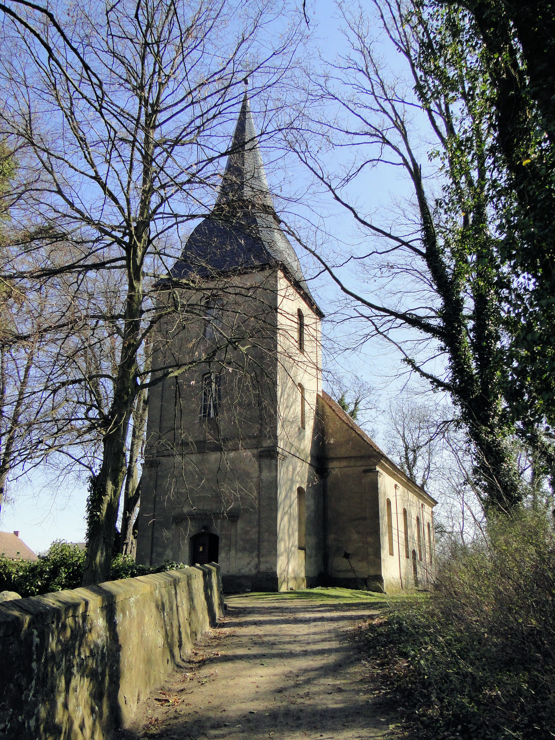 Church in Schwarz, disctrict Müritz, Mecklenburg-Vorpommern, Germany